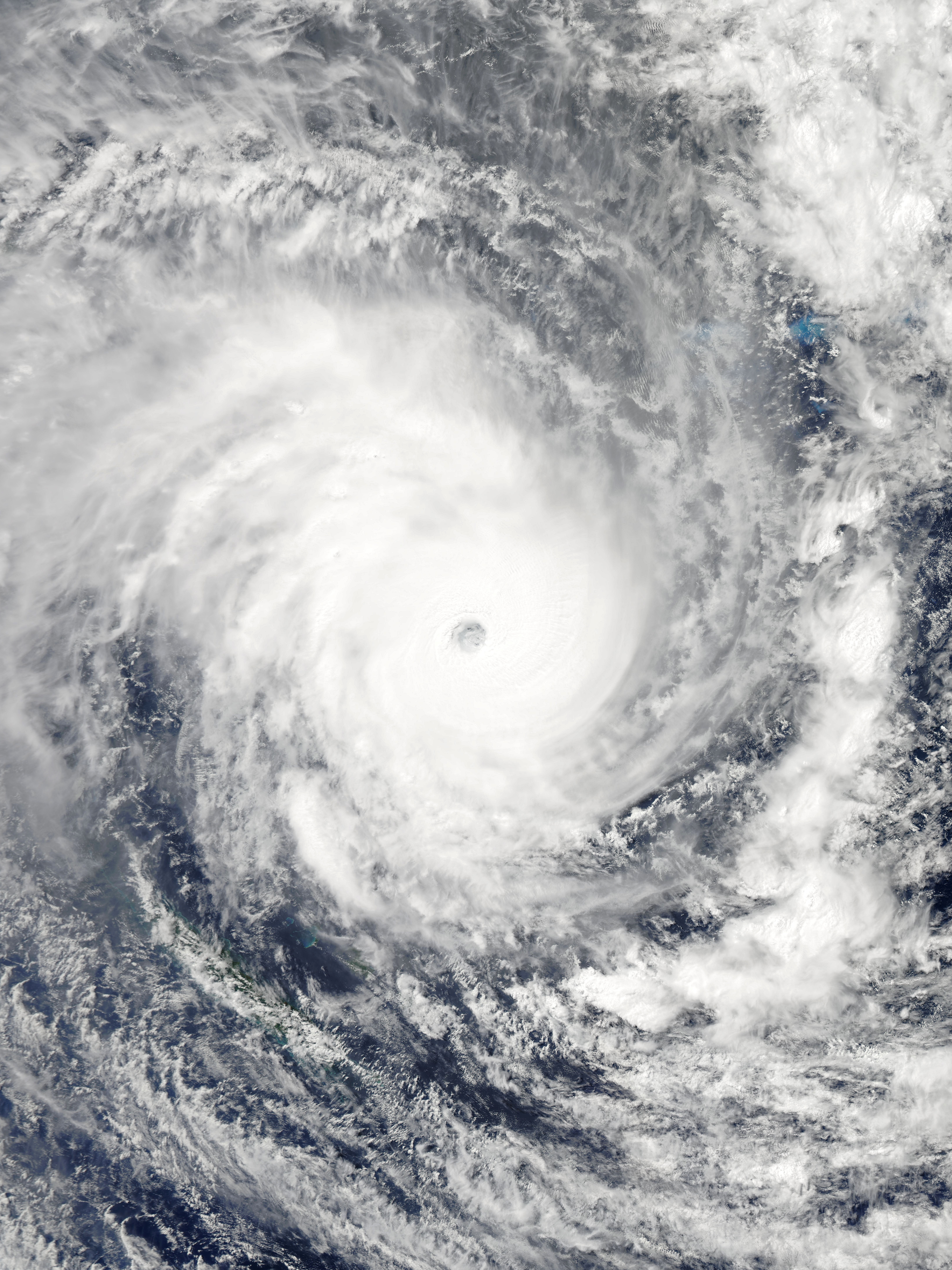 Severe Tropical Cyclone Pam over Vanuatu and nearing peak intensity on 13 March 2015.